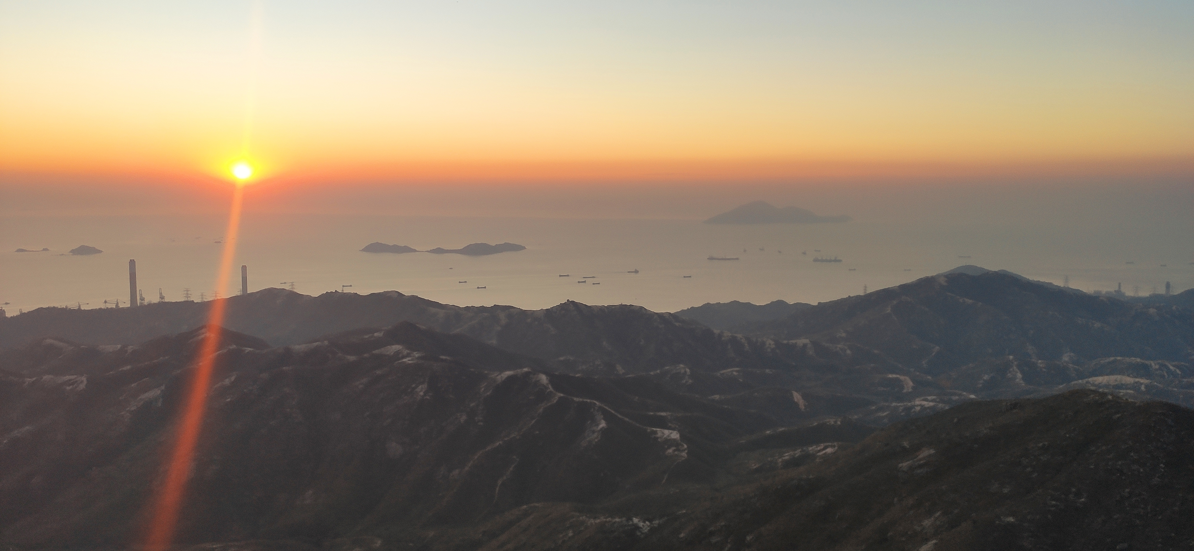 Castle Peak Hinterland, Hong Kong, viewed from just below the summit of Castle Peak